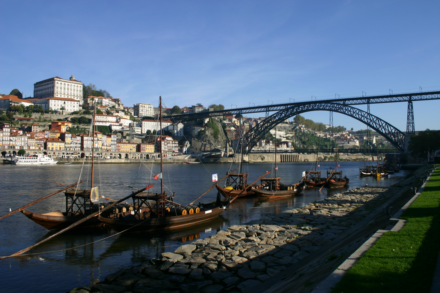 2006 November 11 (according to exif) Autor: António ML Cabral Esta foto pode ser usada para qualquer tipo de utilização com a condição de ser indicado o nome do autor. This picture can be used for all kinds of usage with the condition of the author's name to be indicated.